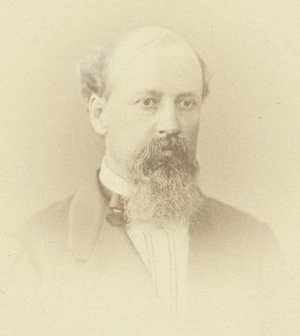 American naval officer Gustavus Fox.